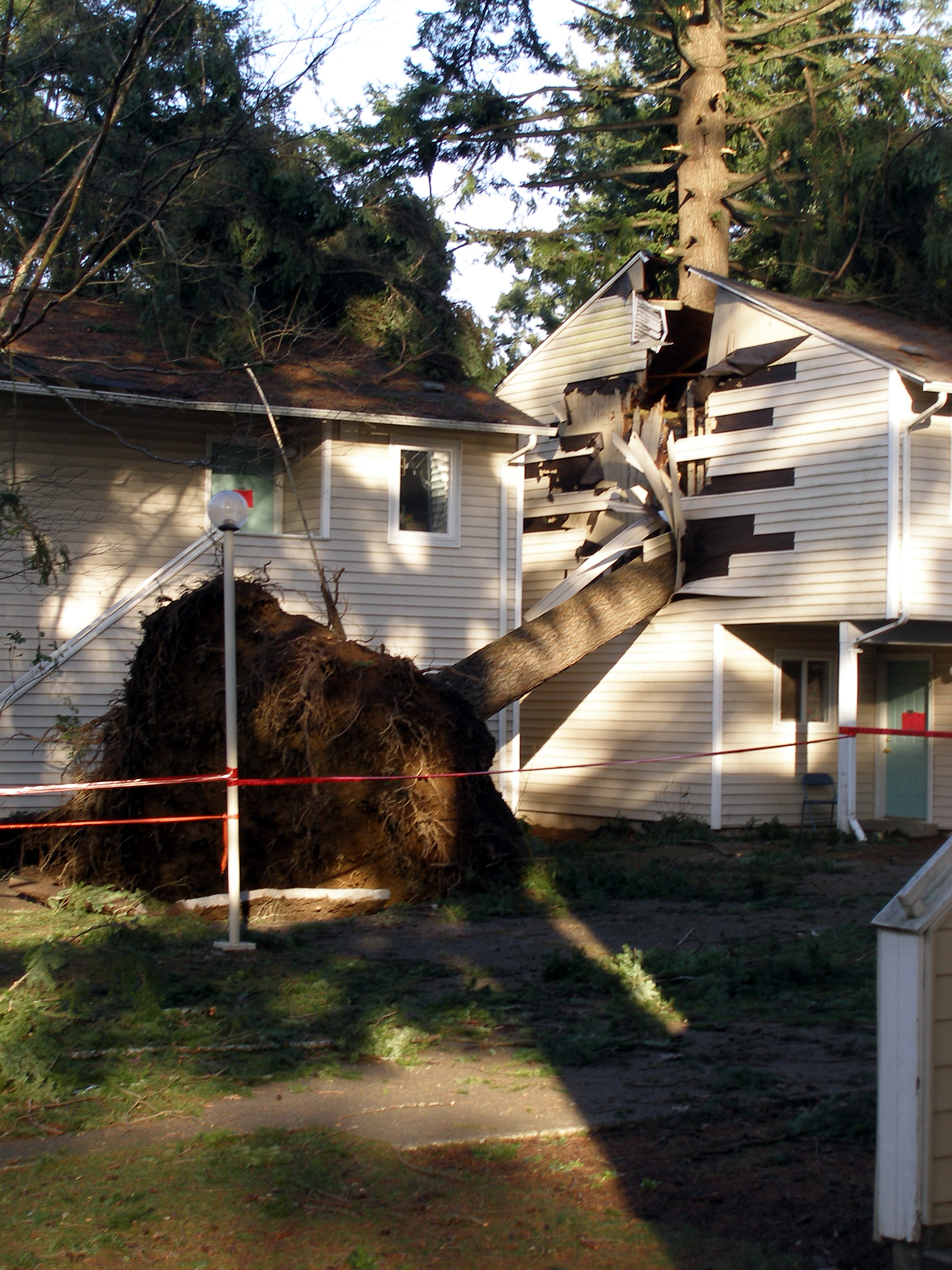 Storm damage from the December 14-15 wind storm that hit the Pacific Northwest. This low-income apartment complex (Evergreen Villages) is in Olympia, Washington at 505 Division St. NW.